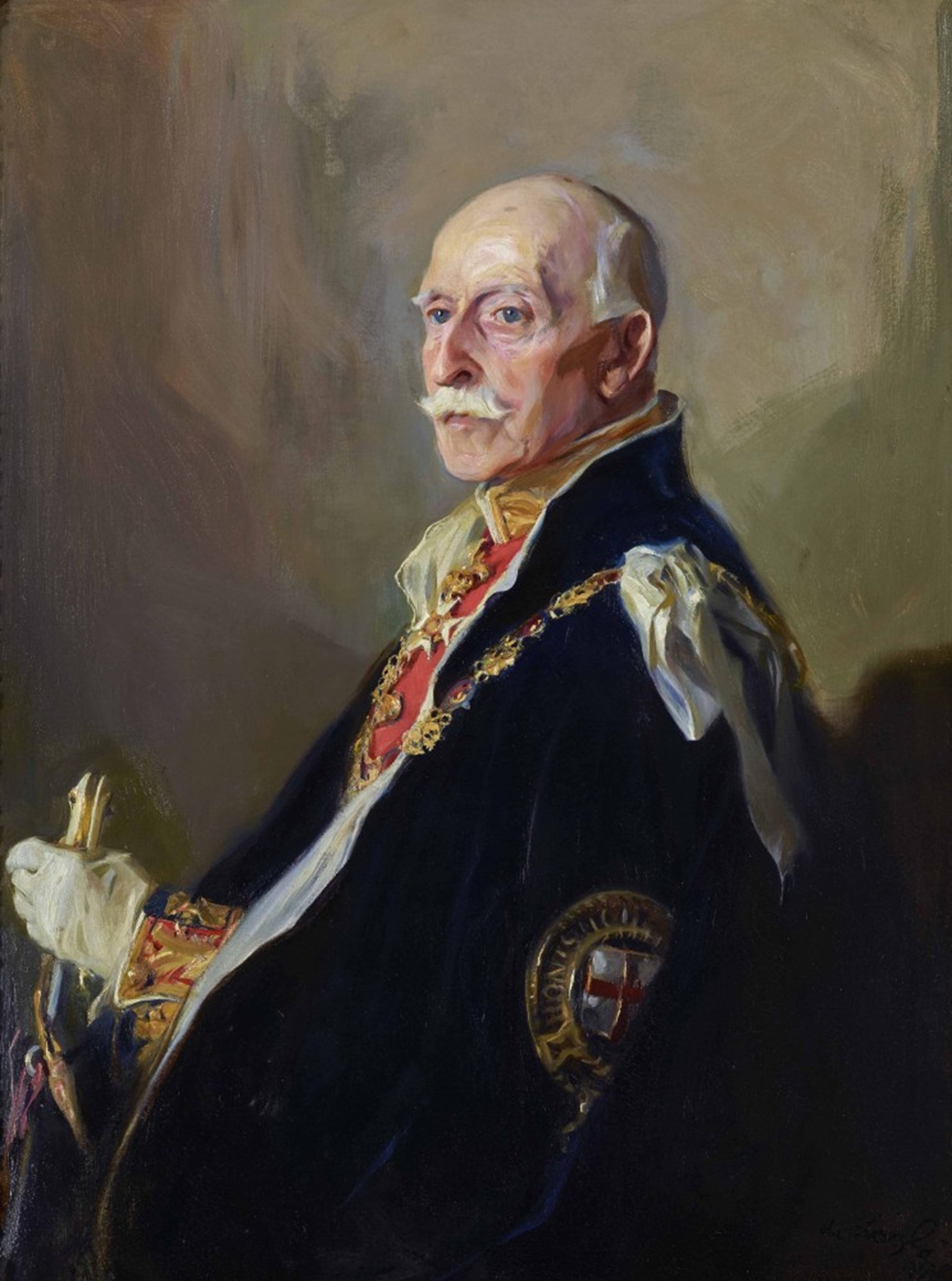 Portrait of Prince Arthur, The Duke of Connaught and Strathearn